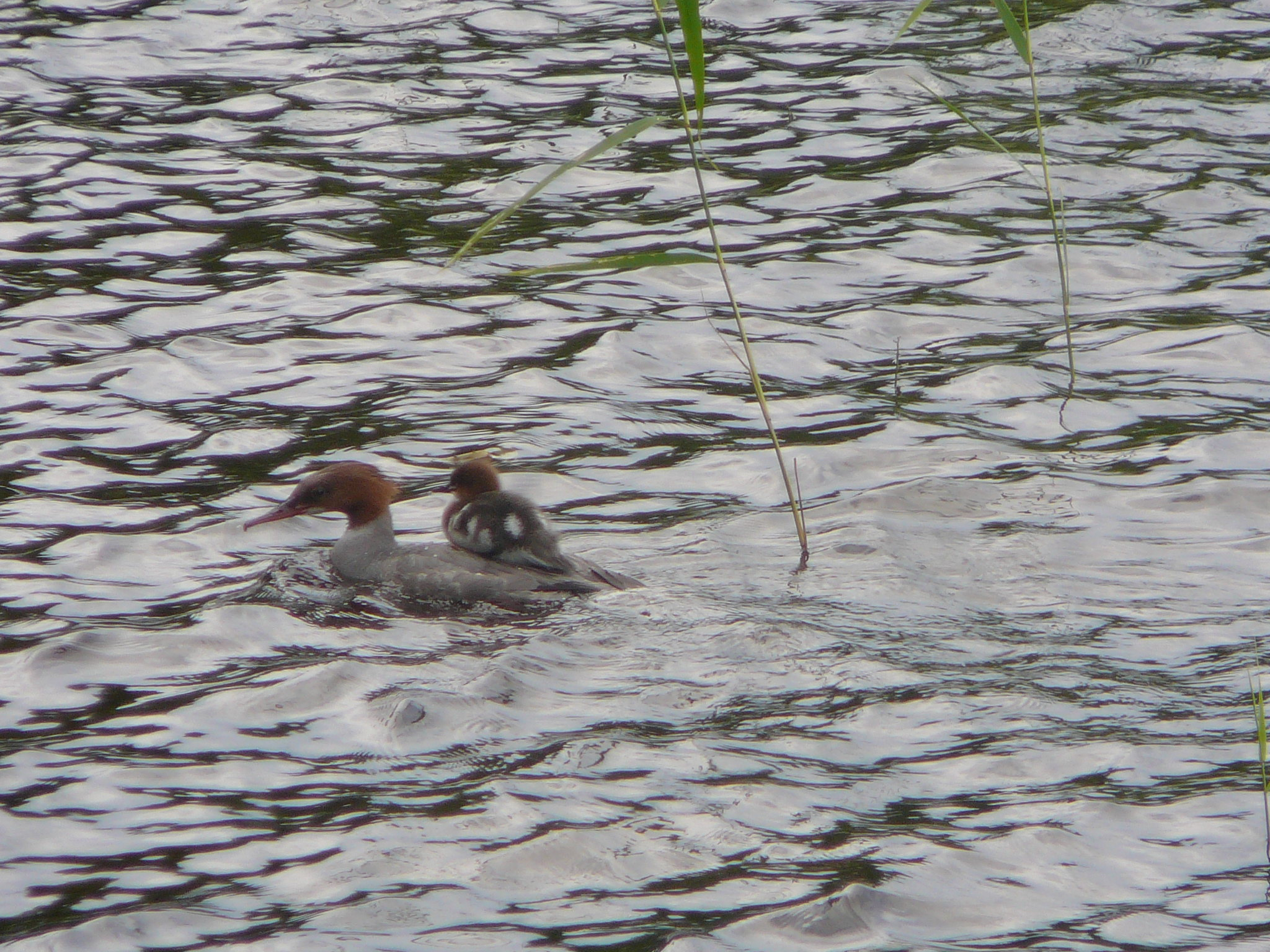 Female Mergus merganser with young riding on female